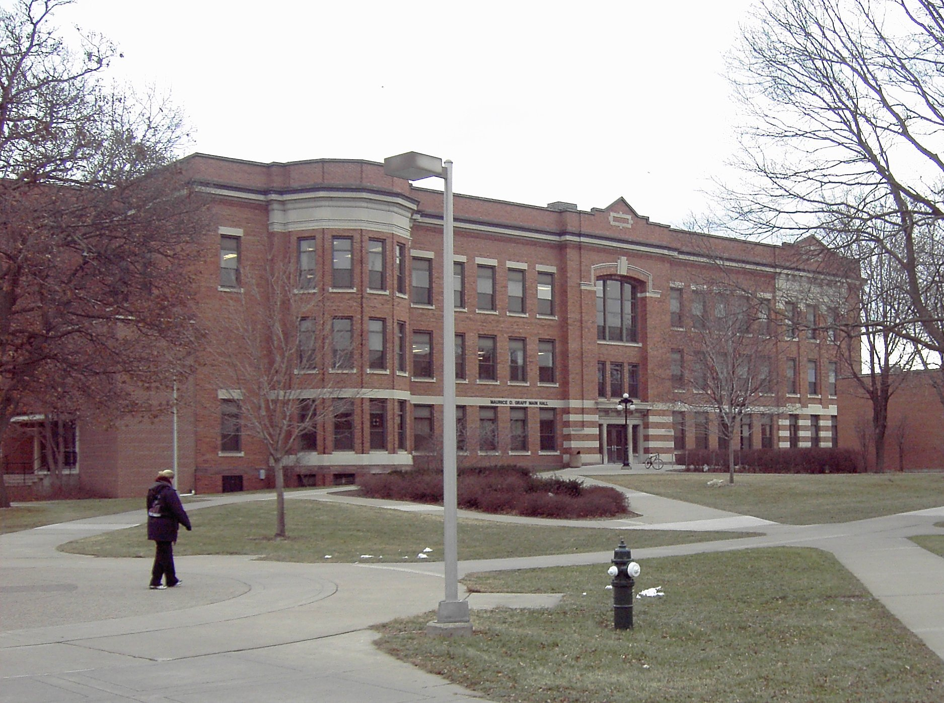 University of Wisconsin–La Crosse, Graff Main Hall, Photo taken December 16th, 2004.